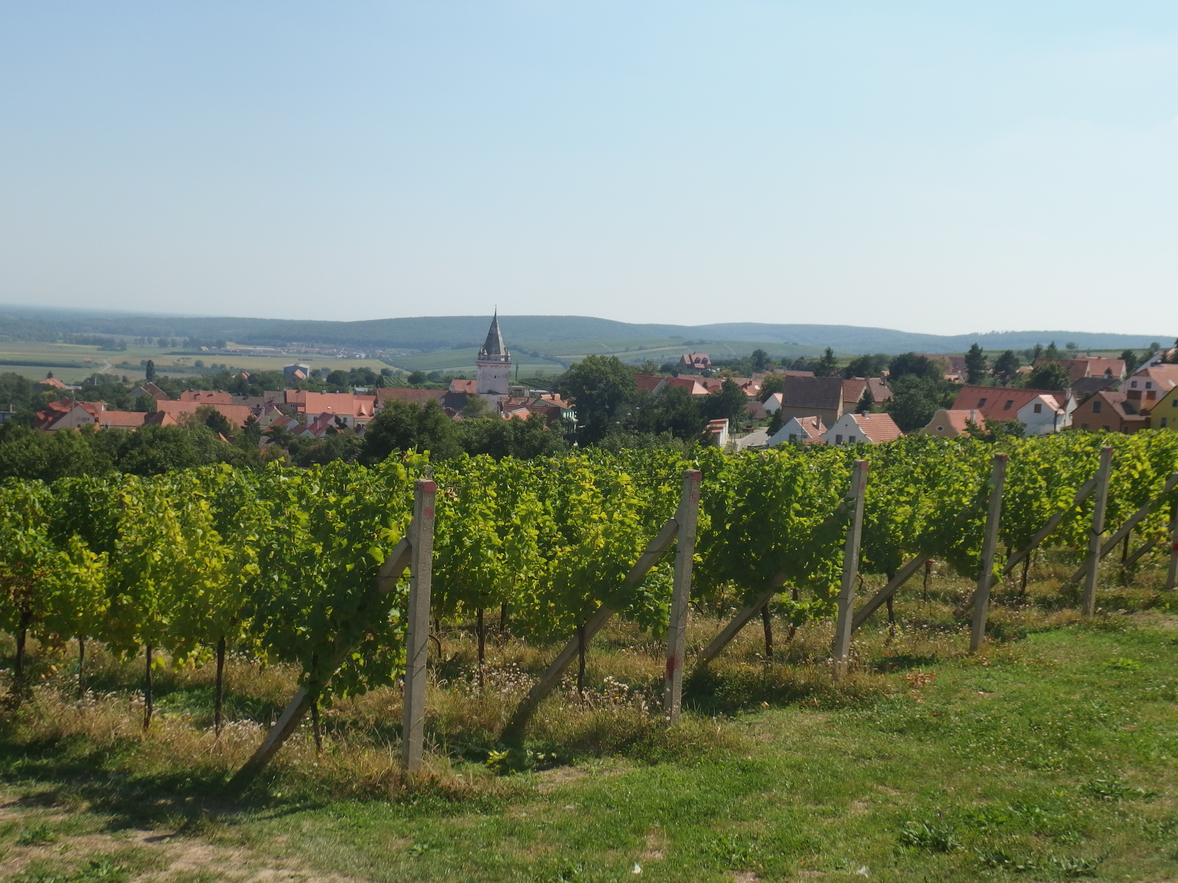 Pavlov, Břeclav District, Czech Republic.